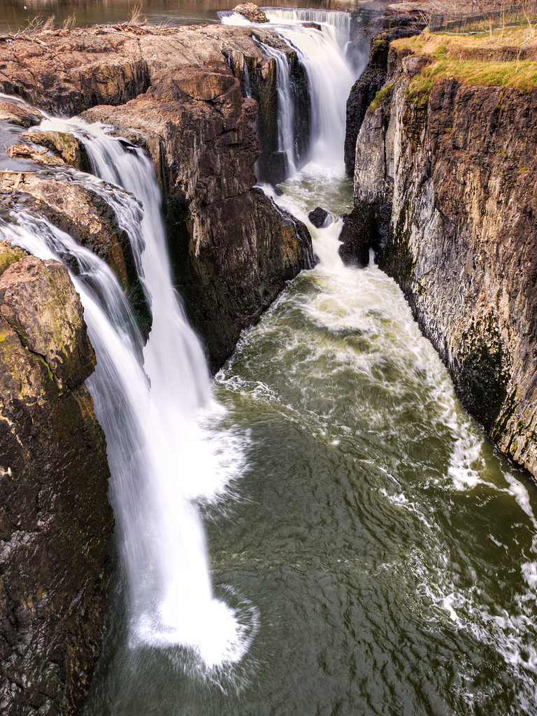 Great Falls of Paterson/S.U.M. Historic District